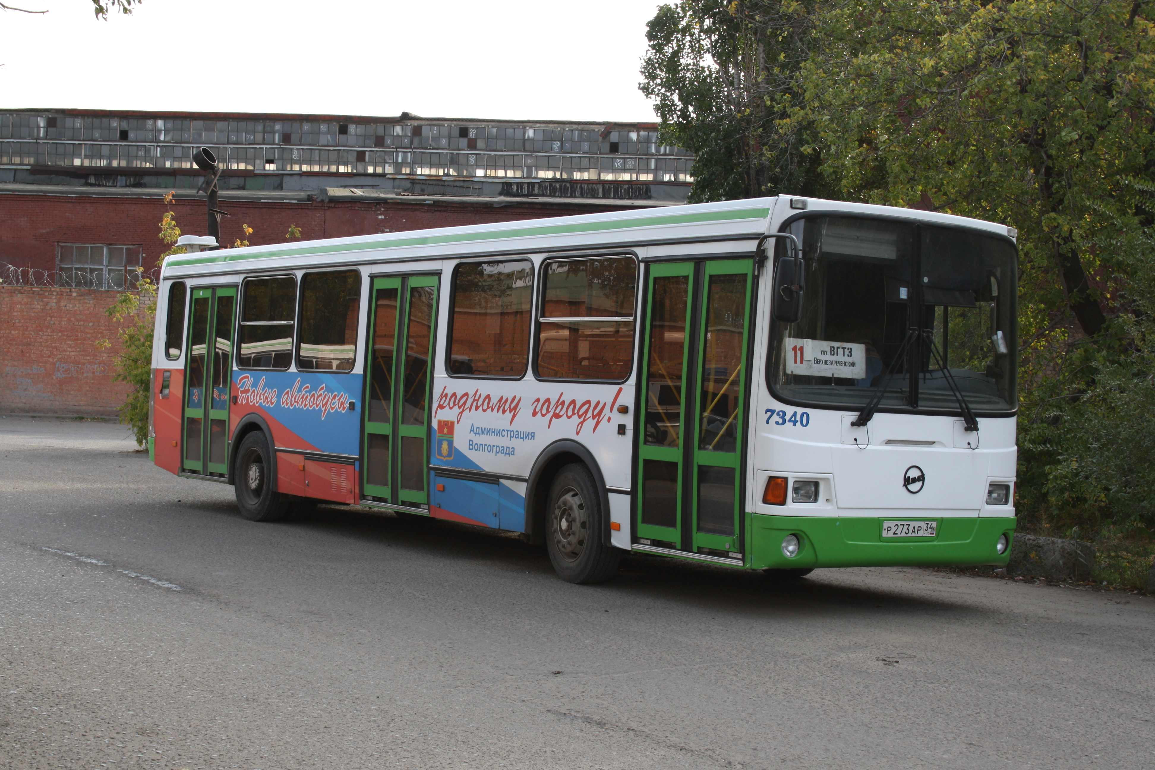 Volgograd bus no. 7340. LiAZ-5256.